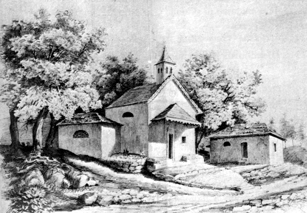 The Sanctuary of the Madonna of Aid (Segonzano, Italia) in a lithography by Basilio Armani (1845 circa) 2014-06-19 17:08:08